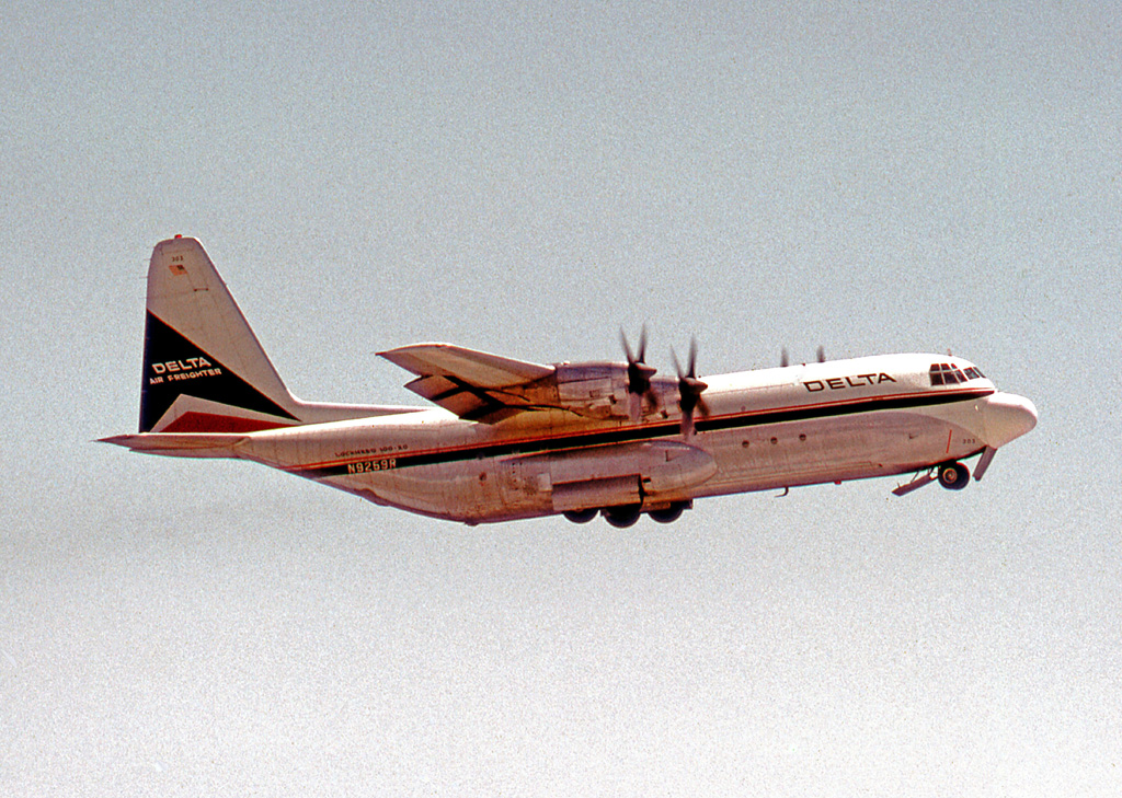 Lockheed L382 Hercules N9259R of Delta Airlines in 1972